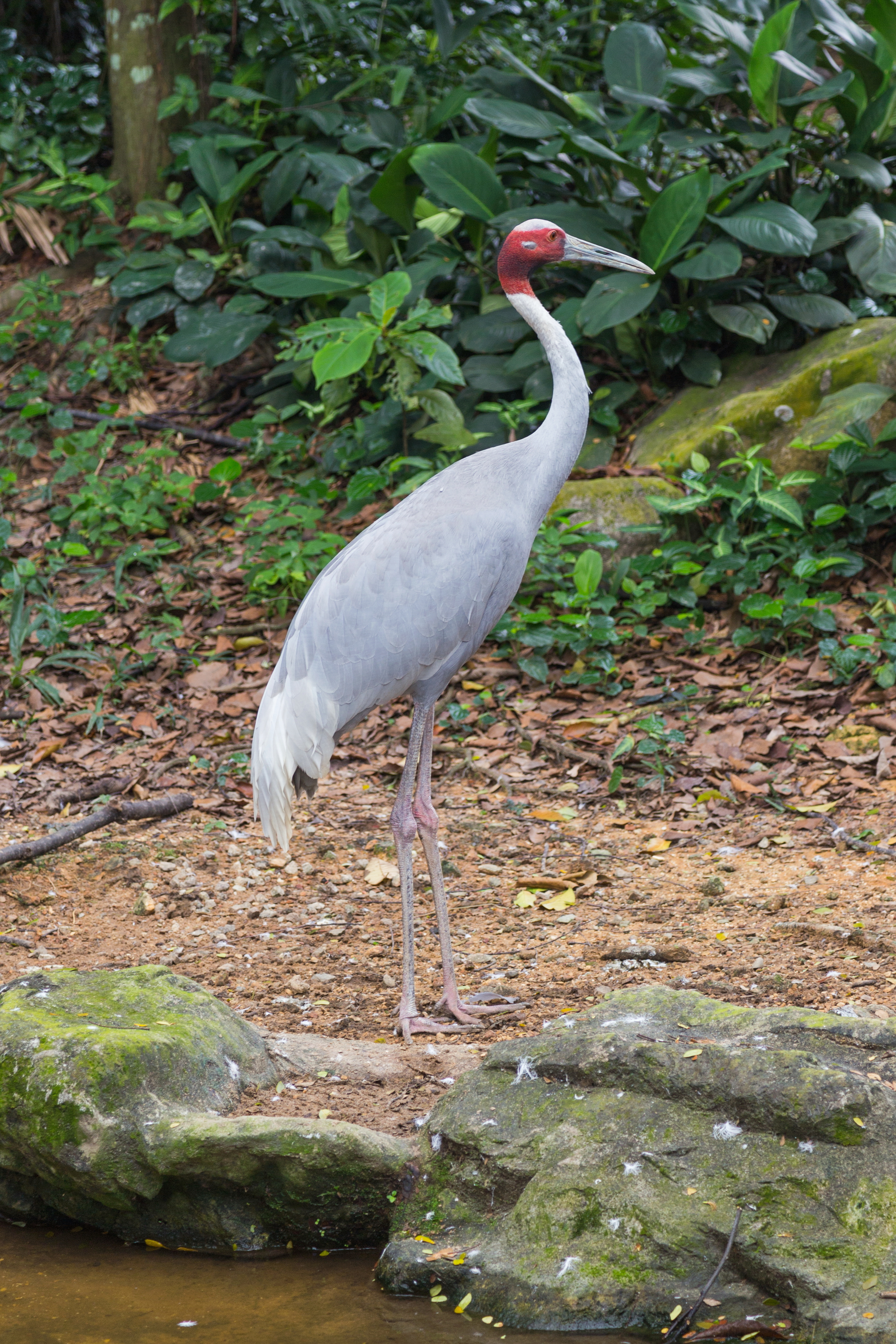 Sarus crane (Antigone antigone). Jurong Bird Park. Jurong, West Region, Singapore.